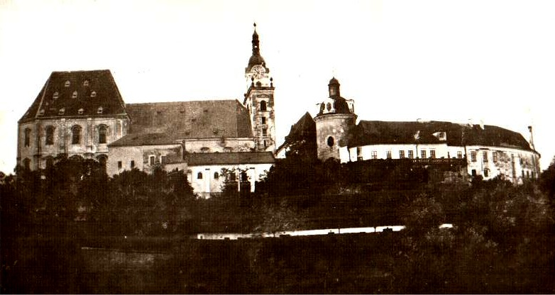 Olomouc Castle and Saint Wenceslaus Cathedral in Olomouc, Czech Repblic. 1st half of 19th century.